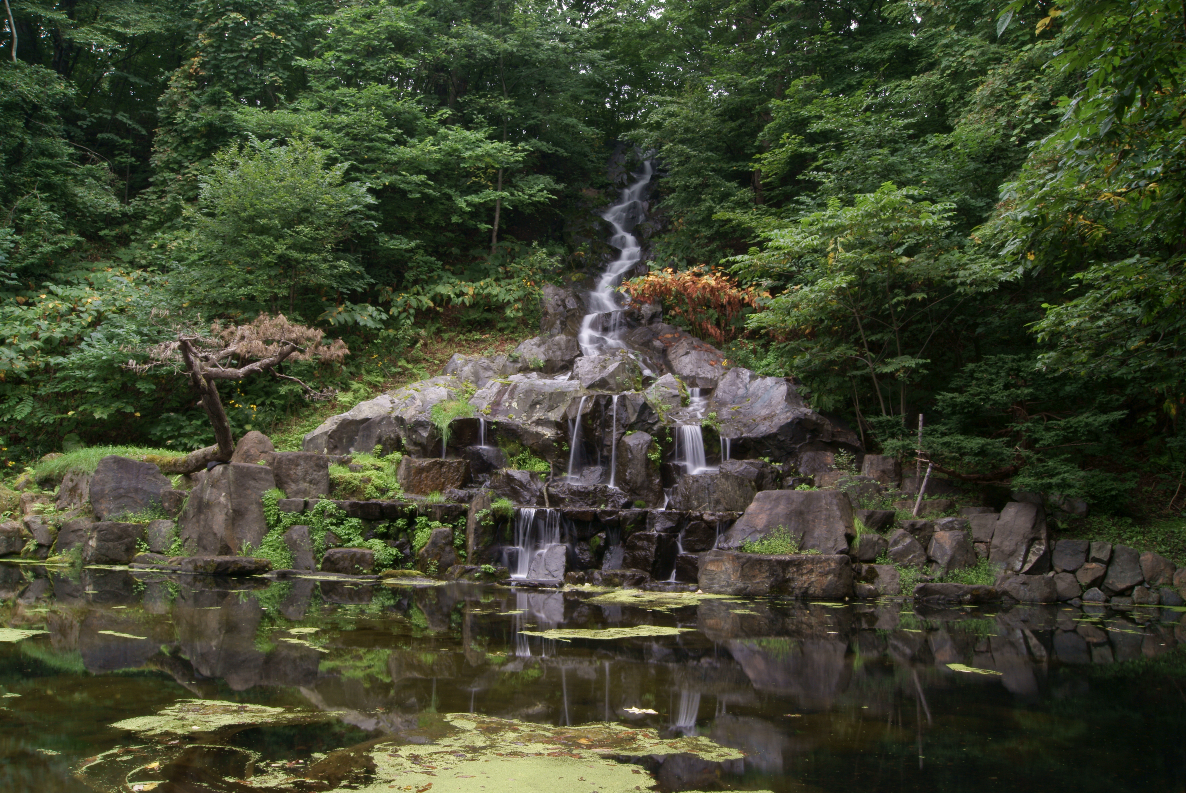 Kaguraoka Park Asahikawa, Hokkaido.